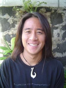 Slam poet Kealoha in 2007. Taken by MJ Miljavac. For the Wikipedia article "Kealoha"